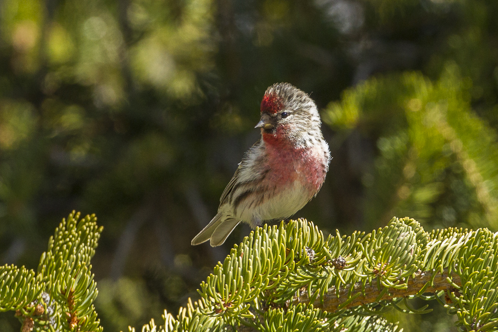 Lesser Redpoll Acanthis cabaret, Aosta Valley, Italy S4E3114